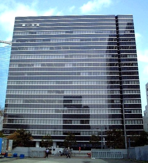 Brüel and Kjær's Osaka office